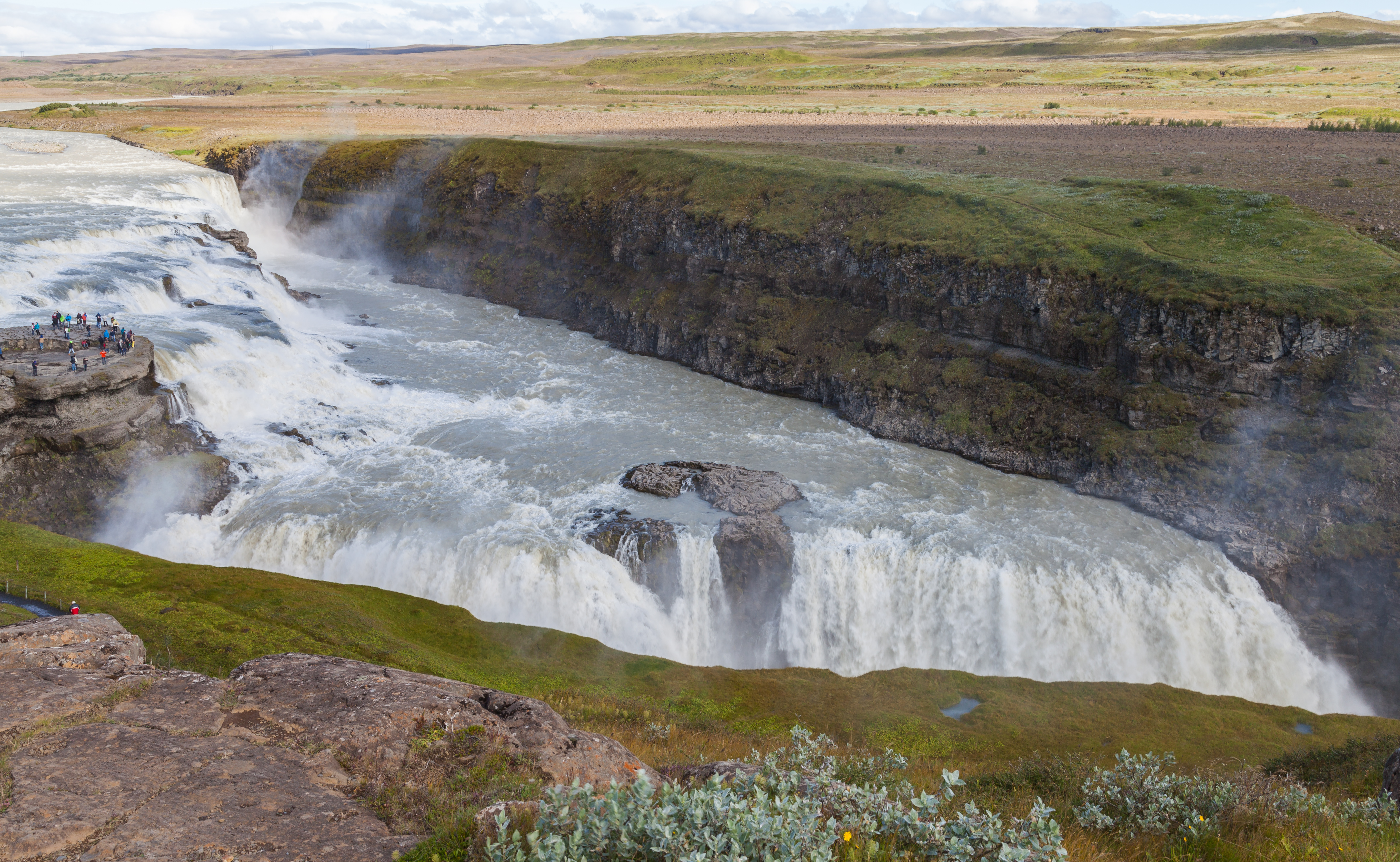 Gullfoss, Suðurland, Iceland